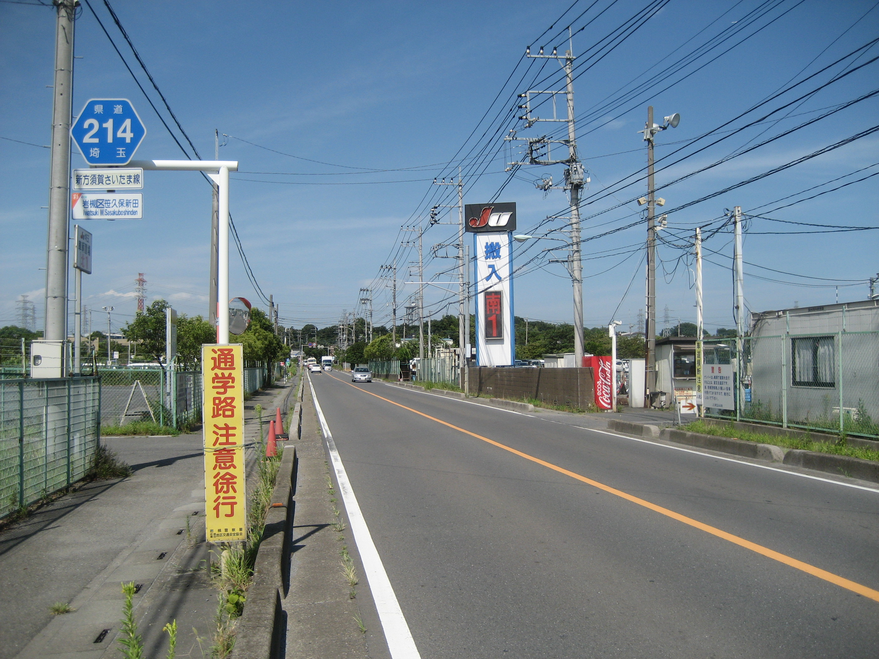 The Saitama Prefectural Road Route 214 in Iwatsuki-ku, Saitama City